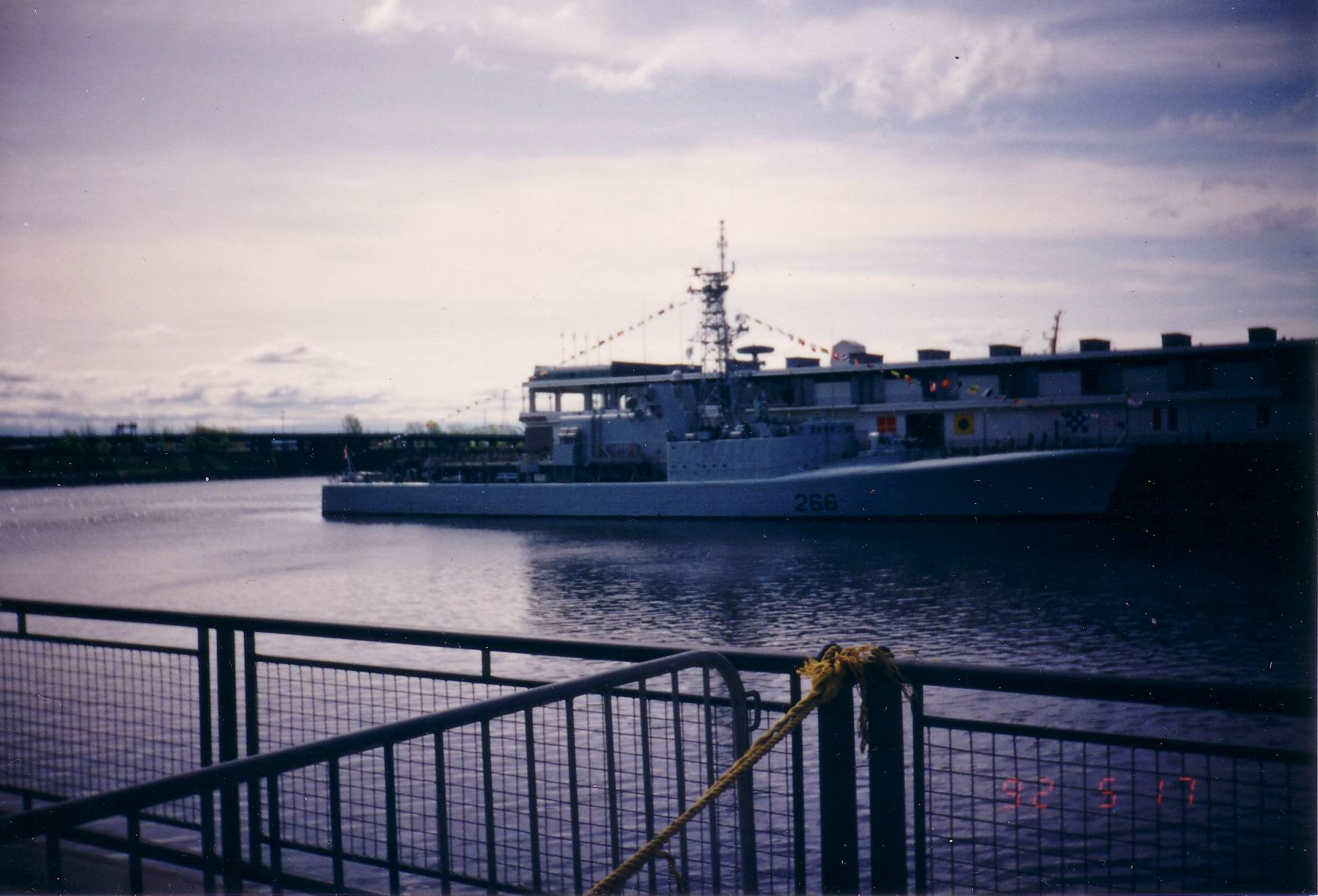 HMCS Nipigon docked at the old port of Montreal, May 17th, 1992. I took the picture.